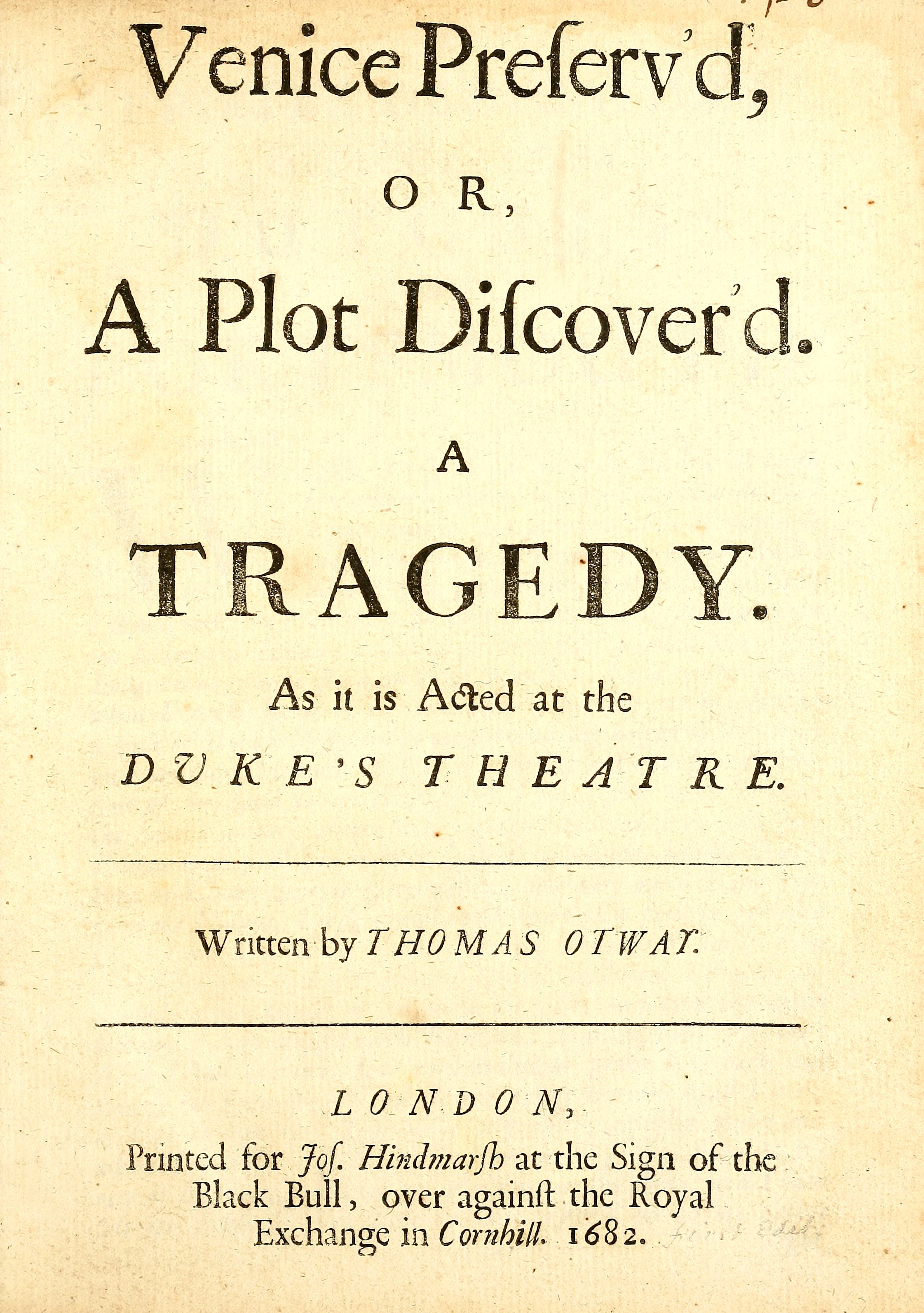 Venice Preserv'd, or, a Plot Discover'd. A Tragedy. As it is Acted at the Duke's Theatre. Written by Thomas Otway.